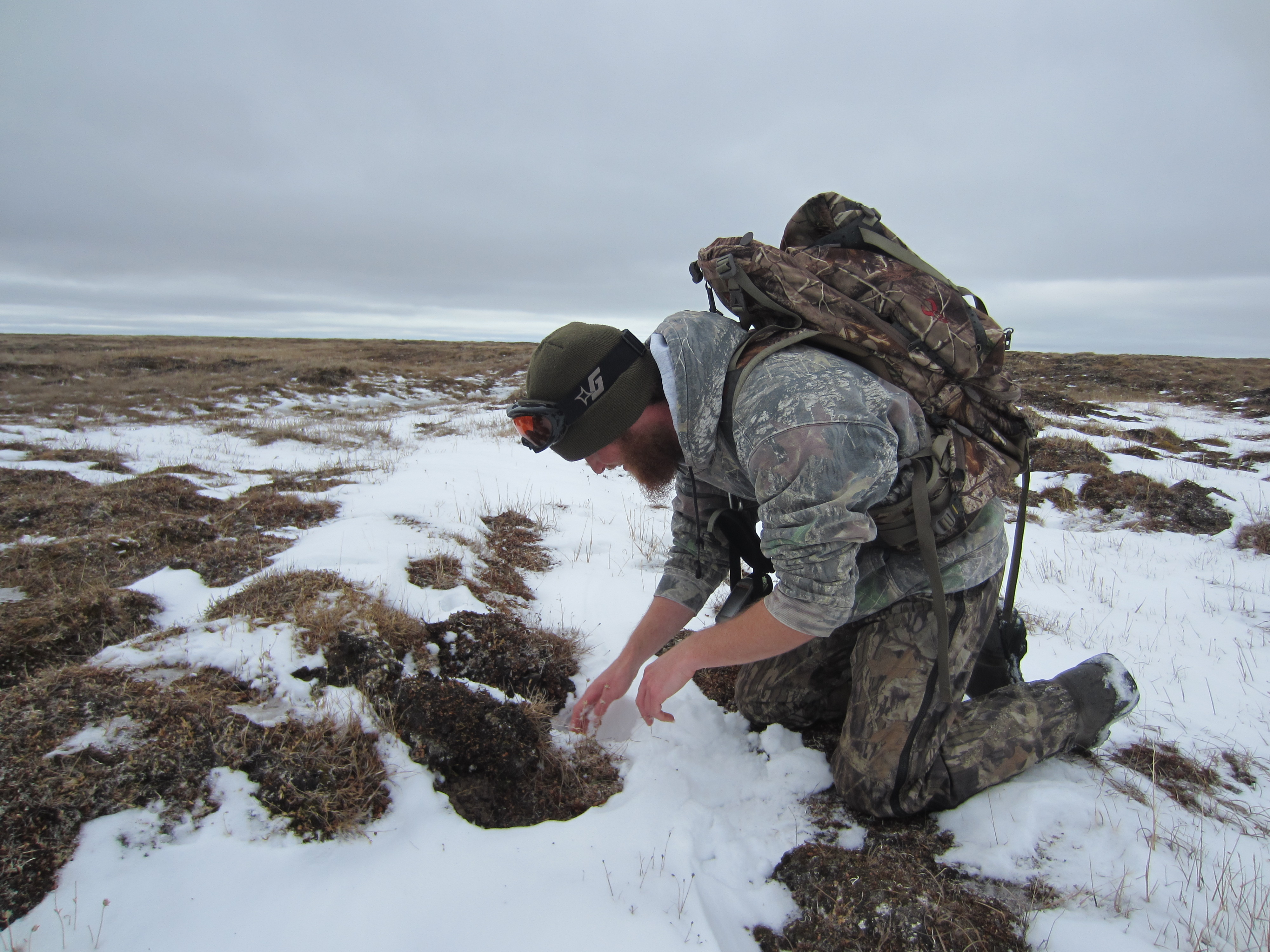 A U.S. Department of Agriculture (USDA) Animal Plant Health Inspection Service (APHIS) Wildlife Services (WS) field specialist sets a fox trap at the Barrow Steller’s Eider Conservation Area in Alaska. Experts trap and remove arctic and red fox from endangered Steller’s Eider nesting areas. Such efforts help boost the nesting success of these rare birds. USDA APHIS WS photo by Marc Pratt.